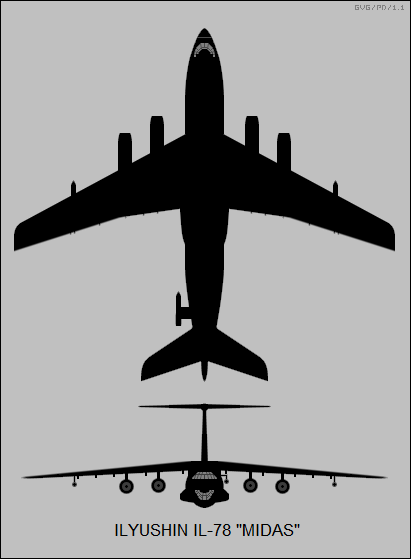 2-view silhouettes of the Ilyushin Il-78 tanker